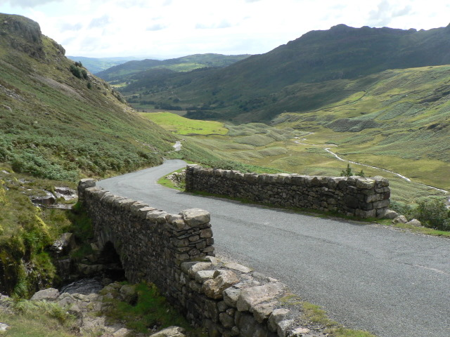 Wrynose Pass: Wrynose Bridge This little stone bridge carries the Wrynose Pass over Wrynose Beck.